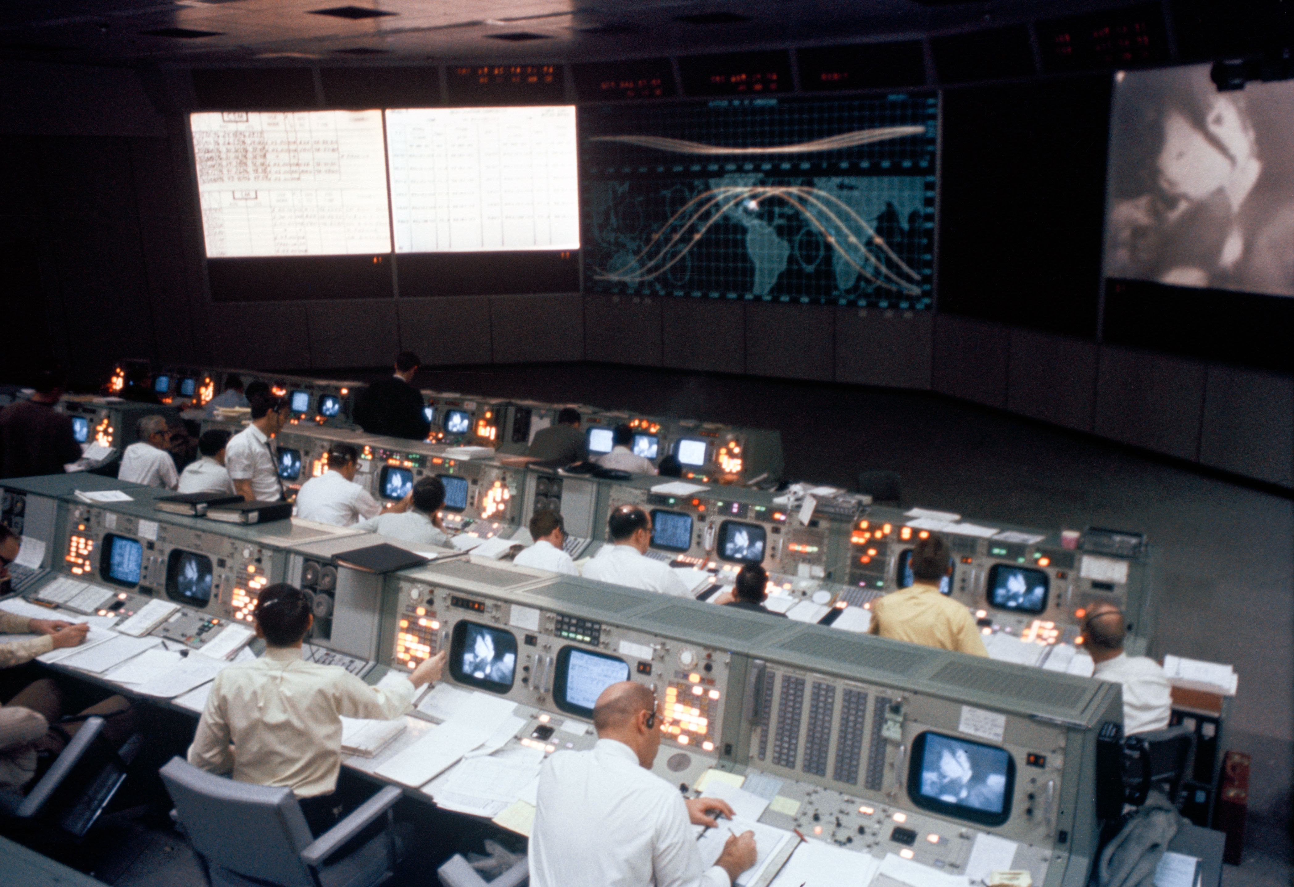 Overall view of the Mission Operations Control Room in the Mission Control Center, Building 30, during the Apollo 9 Earth-orbital mission. When this photograph was taken a live television transmission was being received from Apollo 9 as it orbited Earth.